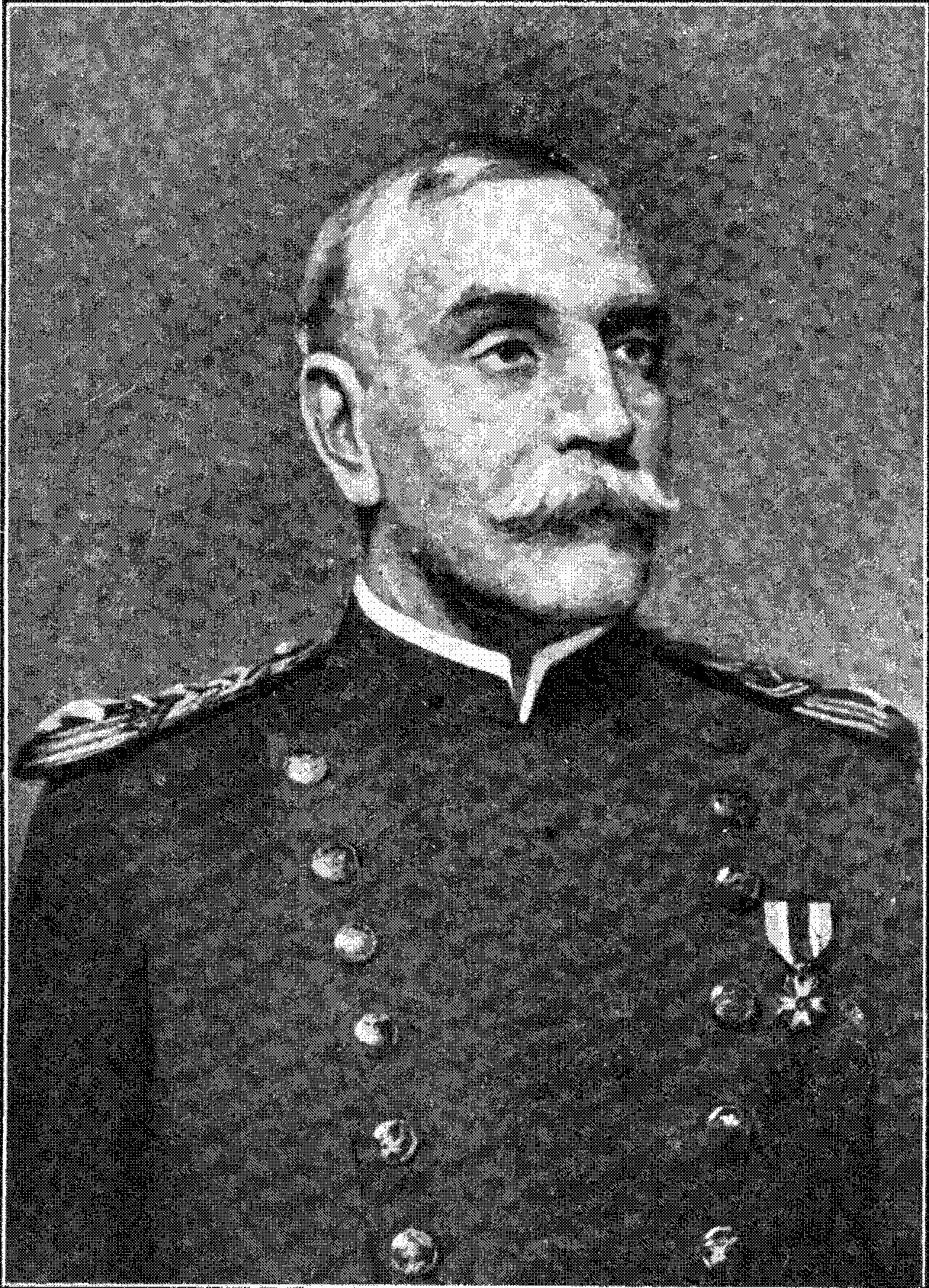 Author's autography presentation copy to Mortimer E. Cooley